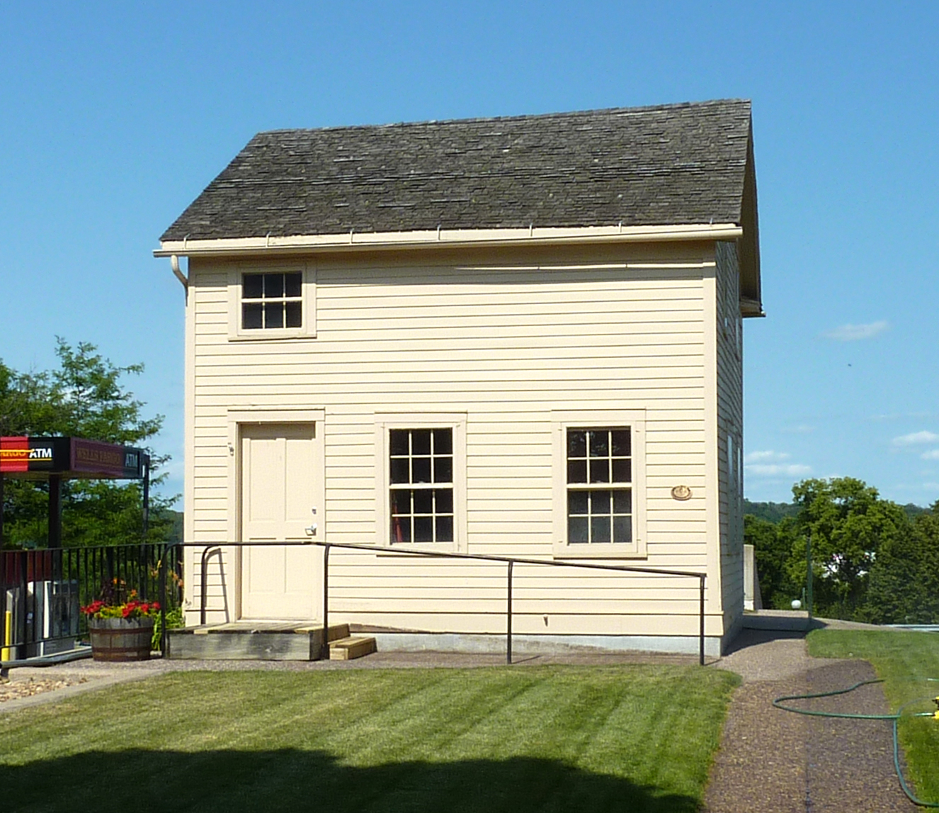 Frederick W. Kiesling House, New Ulm, Minnesota, USA.